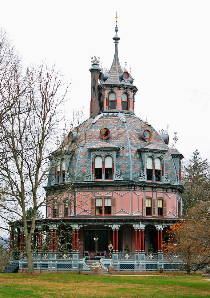 The Armour-Stiner House aka The Octagon House is located in Irvington, NY and became a National Historical Landmark in 1976. It is currently a private residence.